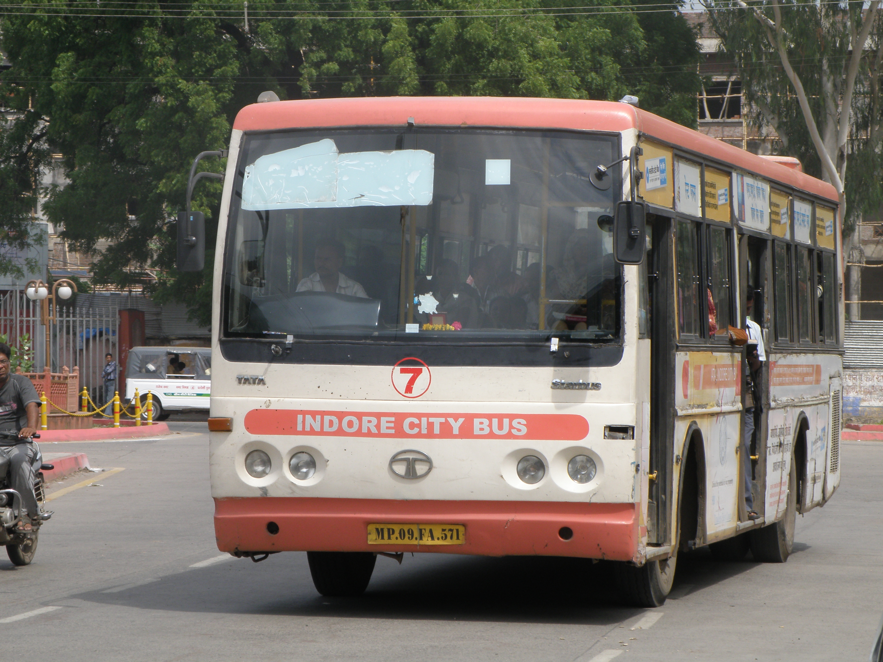 Indore City Bus in Indore, India